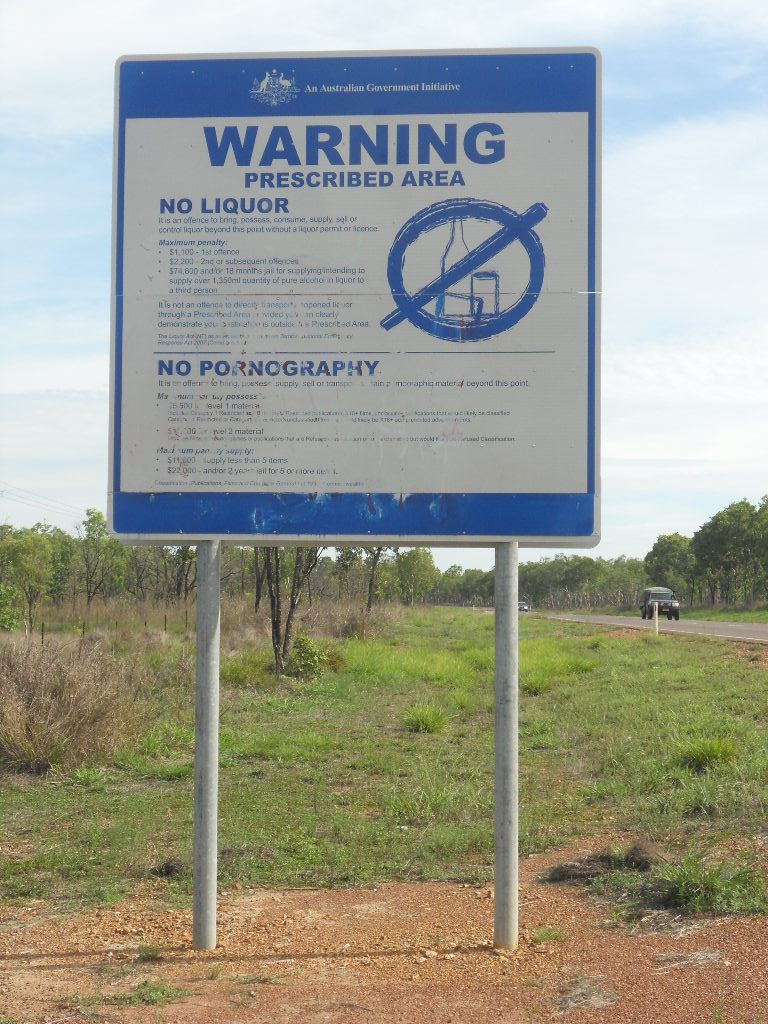 Picture of 'Prescribed Area' signage within alcohol restricted areas that were defined and instated by the Northern Territory National Emergency Response Act enacted by the Howard Government of Australia in 2007.